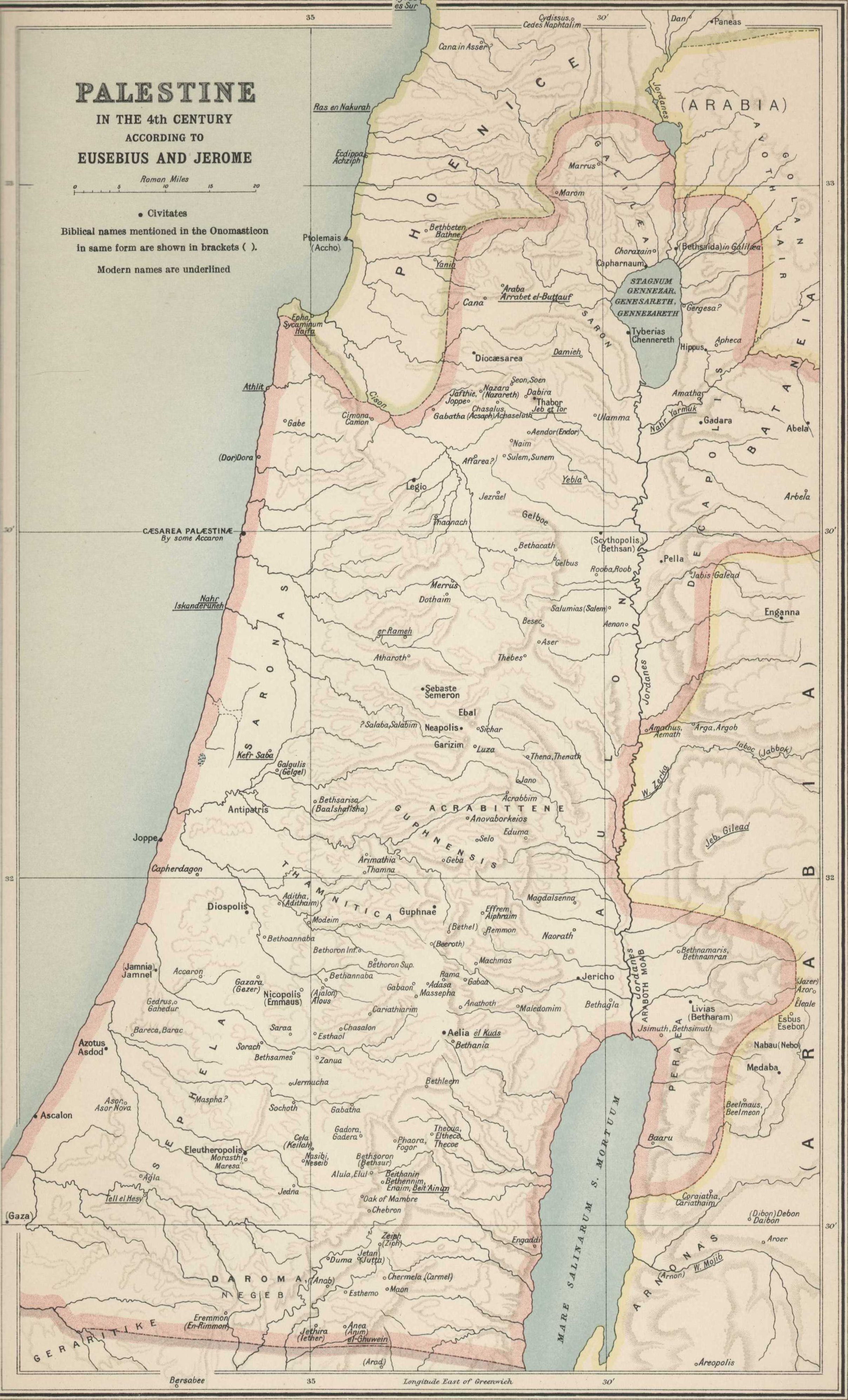 Palestine according to Eusbius and Jerome, as per Atlas of the Historical Geography of the Holy Land by George Adam Smith in 1915